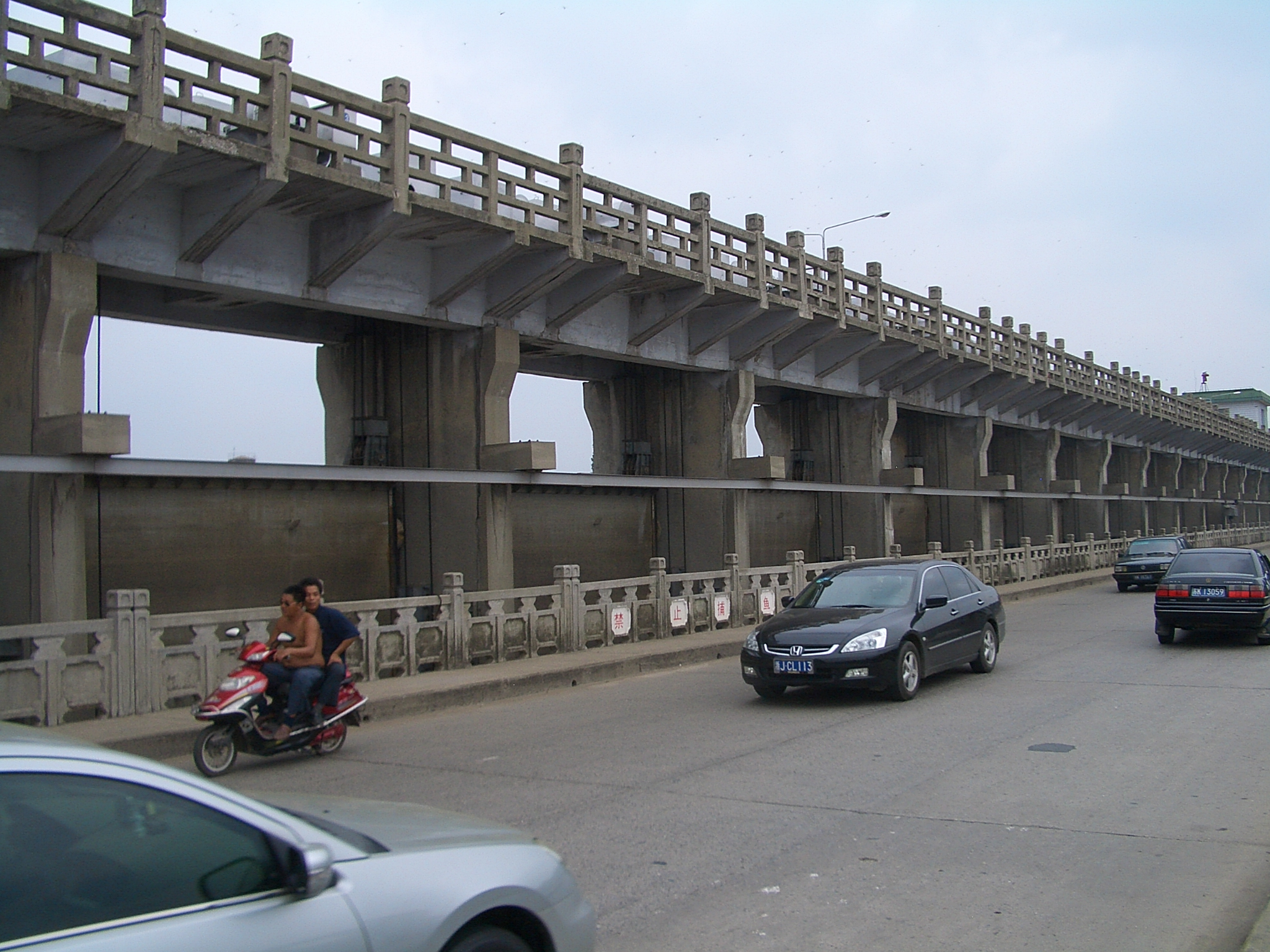 Wanfu Floodgate (Wanfu Zha), a flood control structure on Liaojia River east of Yangzhou